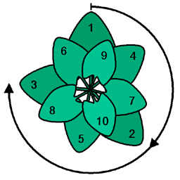 End-on view of a plant stem in which consecutive leaves are separated by the golden angle